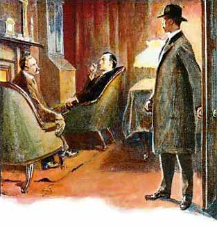 Sherlock Holmes in "The Adventure of the Abbey Grange."